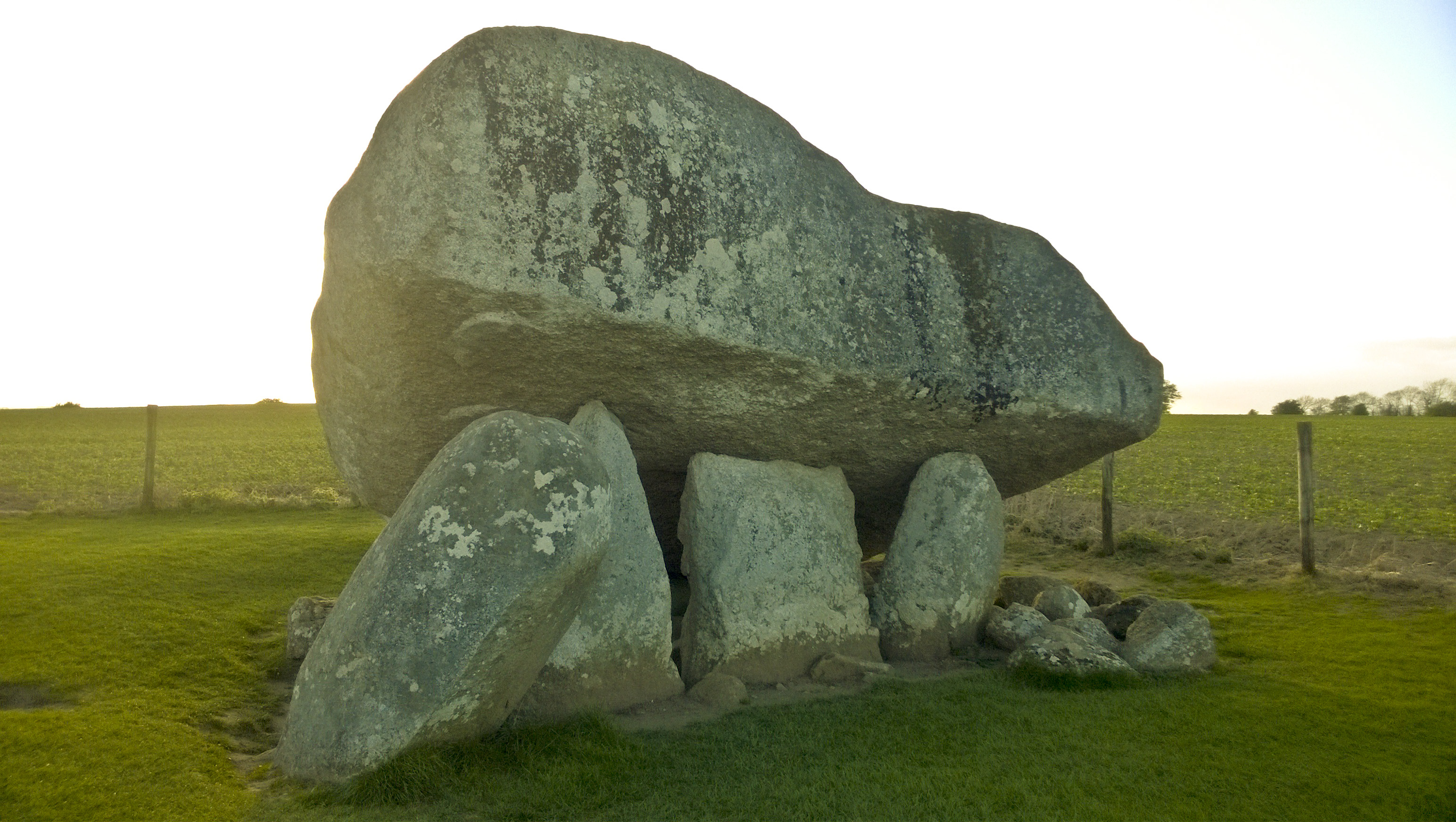 Browneshill Portal Tomb